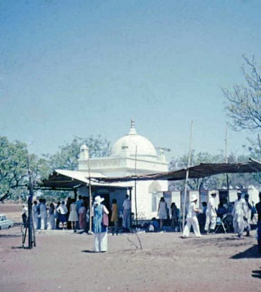 Photograph of Meher Baba 1969 Samadi, taken by David Bradley